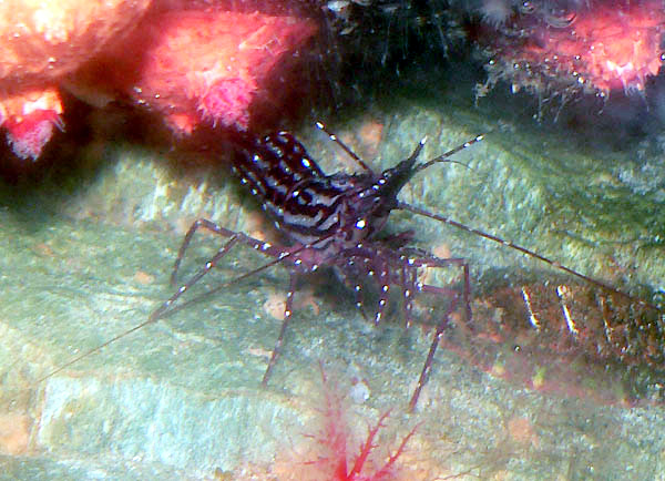 Photo of Pandalopsis lucidirimicola shrimp at the Vancouver Aquarium